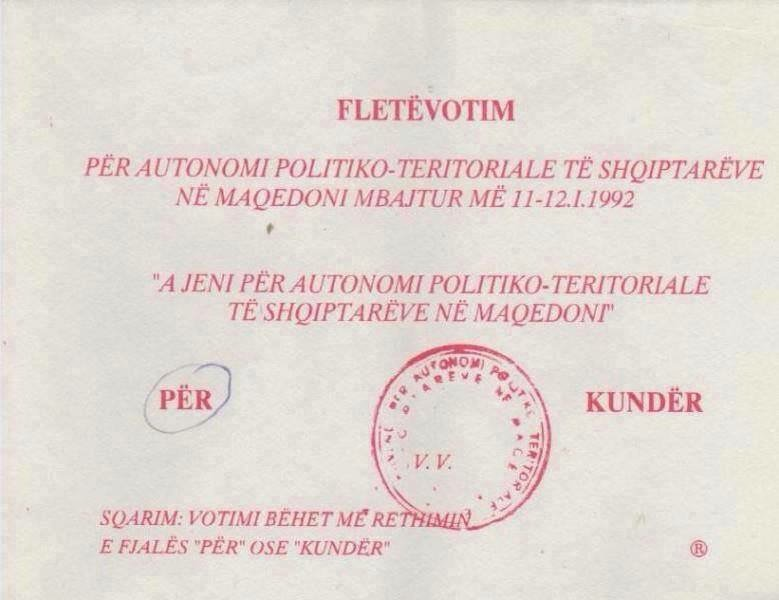 The ballot referendum to declare territorial autonomy of the Albanians in Ilirida (Fyrom,Macedonia) year 1992